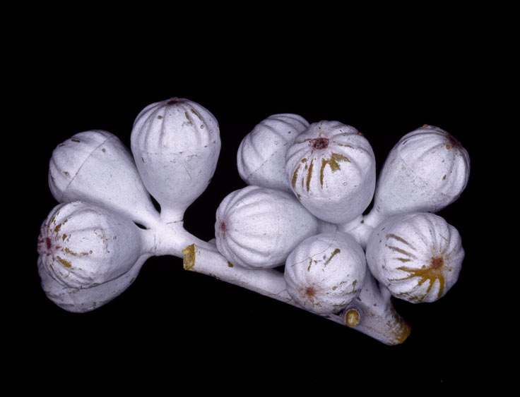 Flower buds of Eucalyptus canescens subsp. canescens north of Cook, in the Great Victoria Desert, South Australia